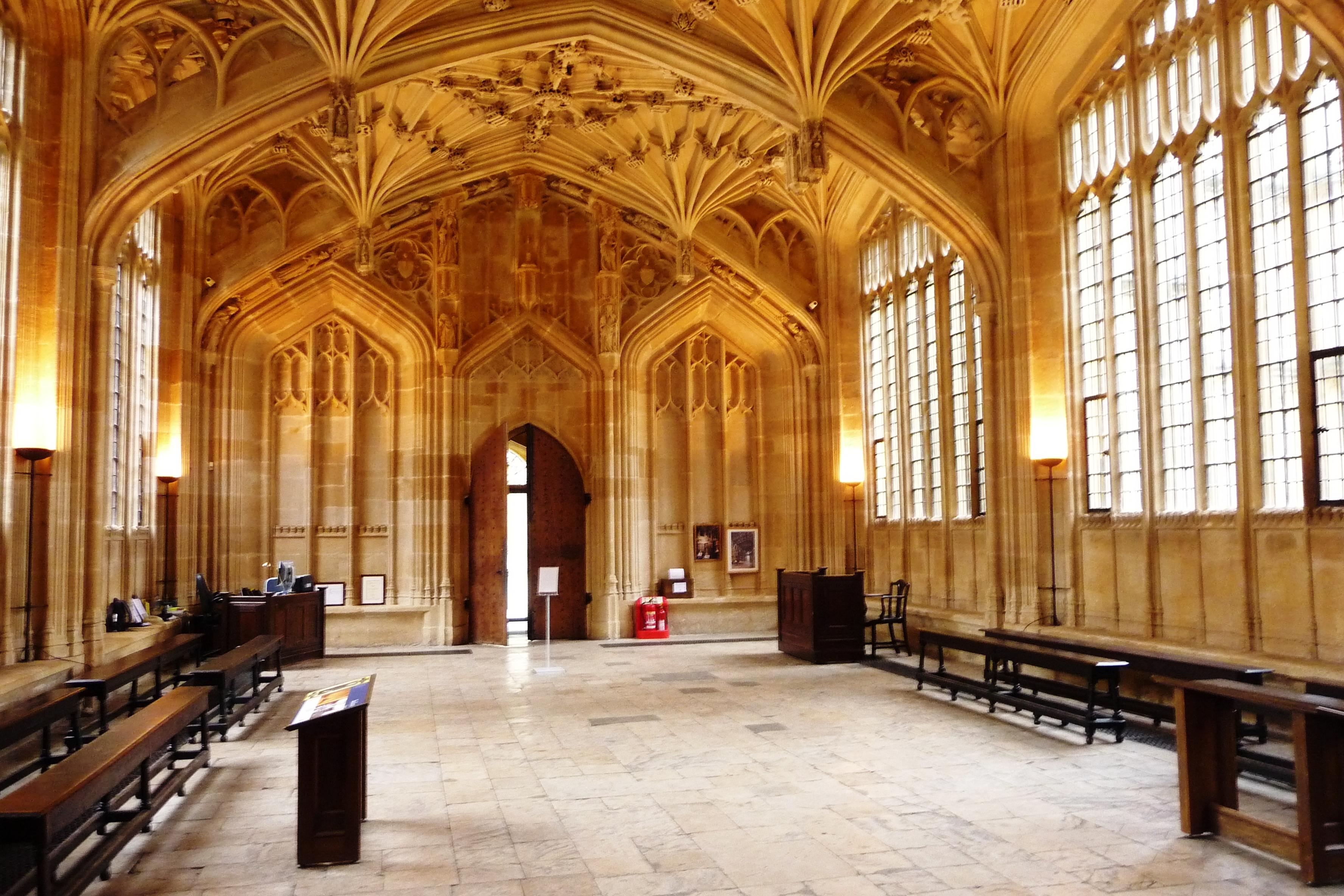 See title.